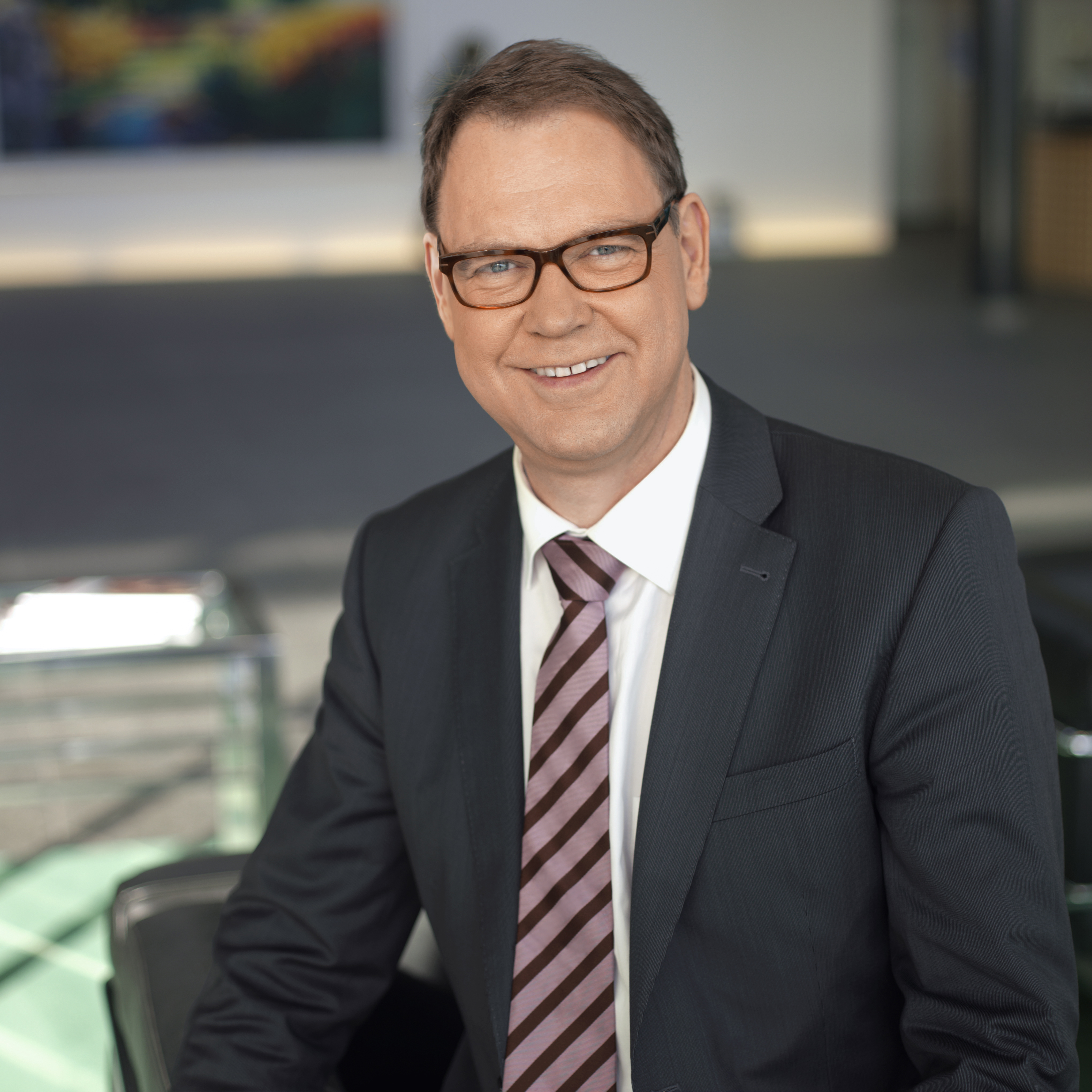 Aart De Geus, Chairman and Chief Executive Officer of Bertelsmann Stiftung